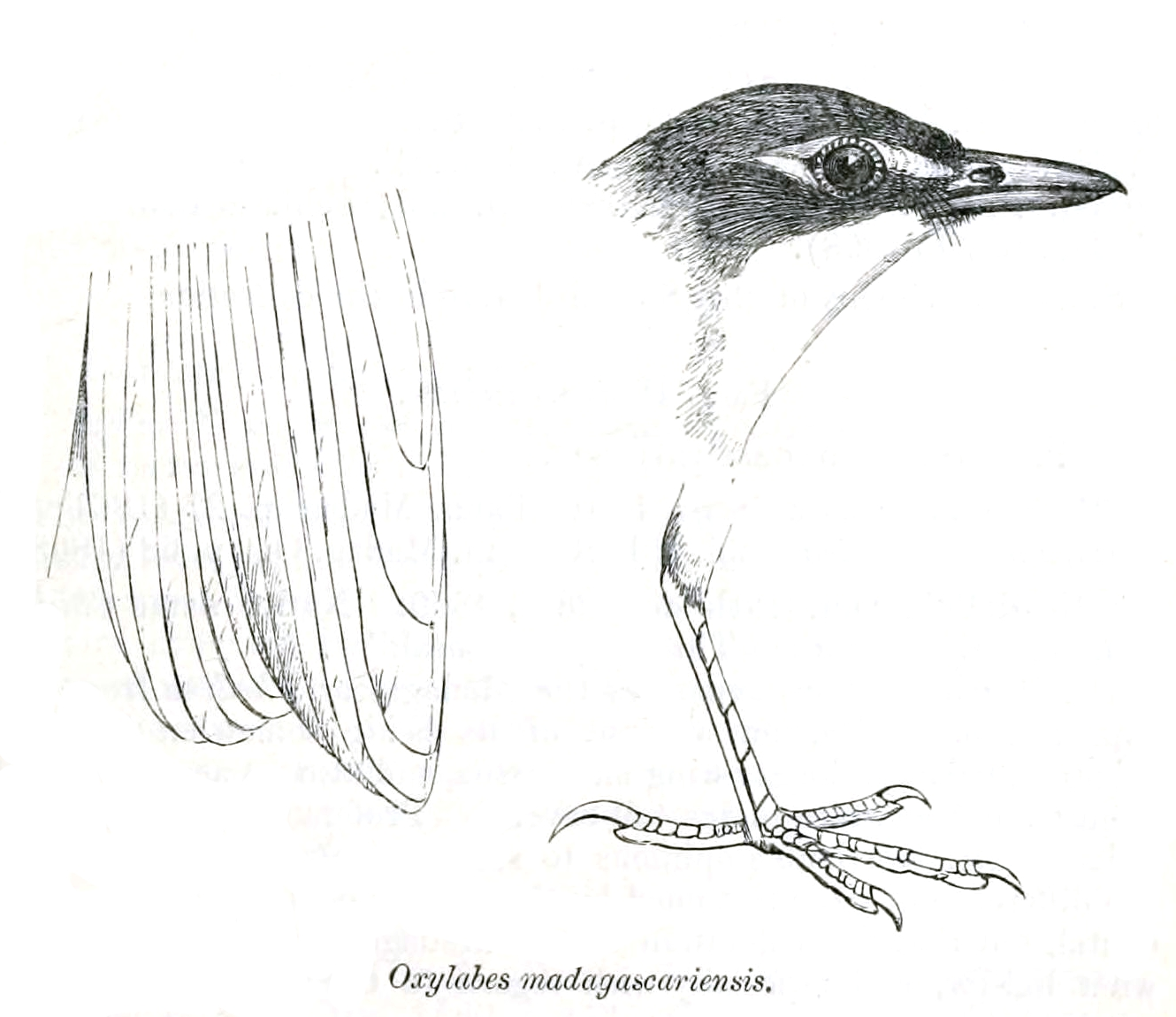 White-throated Oxylabes; head from lateral, foot from lateral, remiges tips from ventral